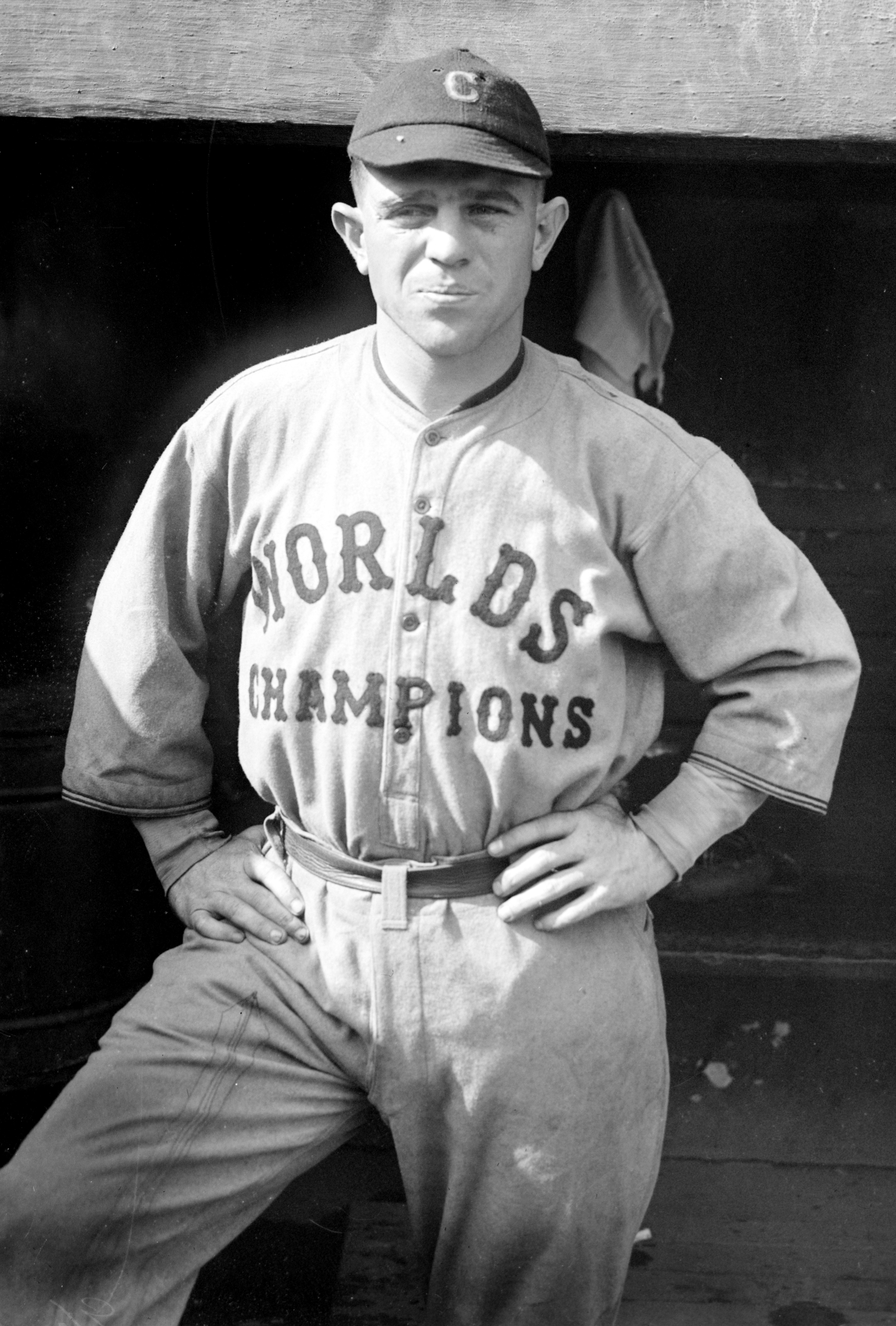 Photo of Joe Sewell, Published by Bain News Service, 1921